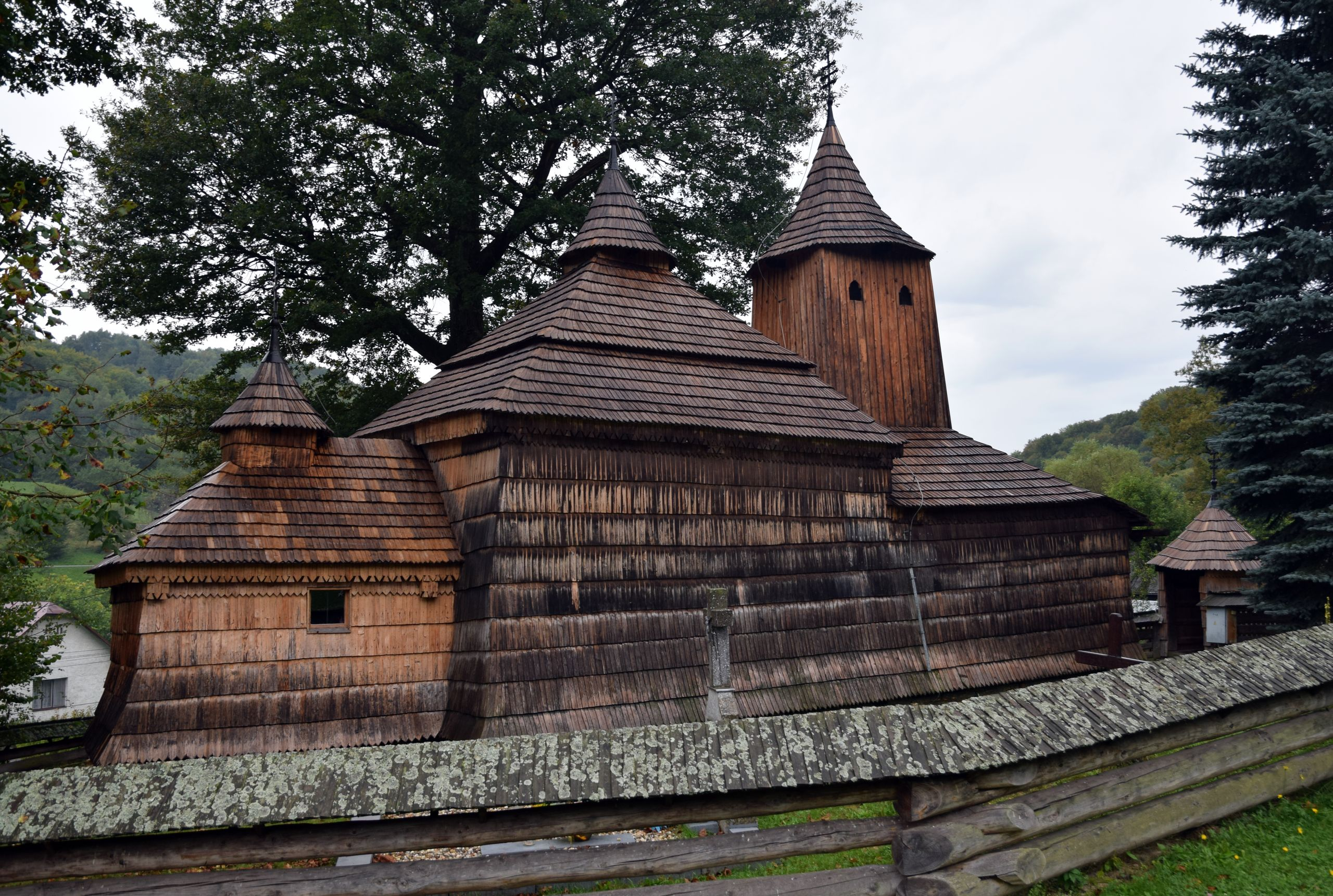 Krajné Čierno, church of St Basil